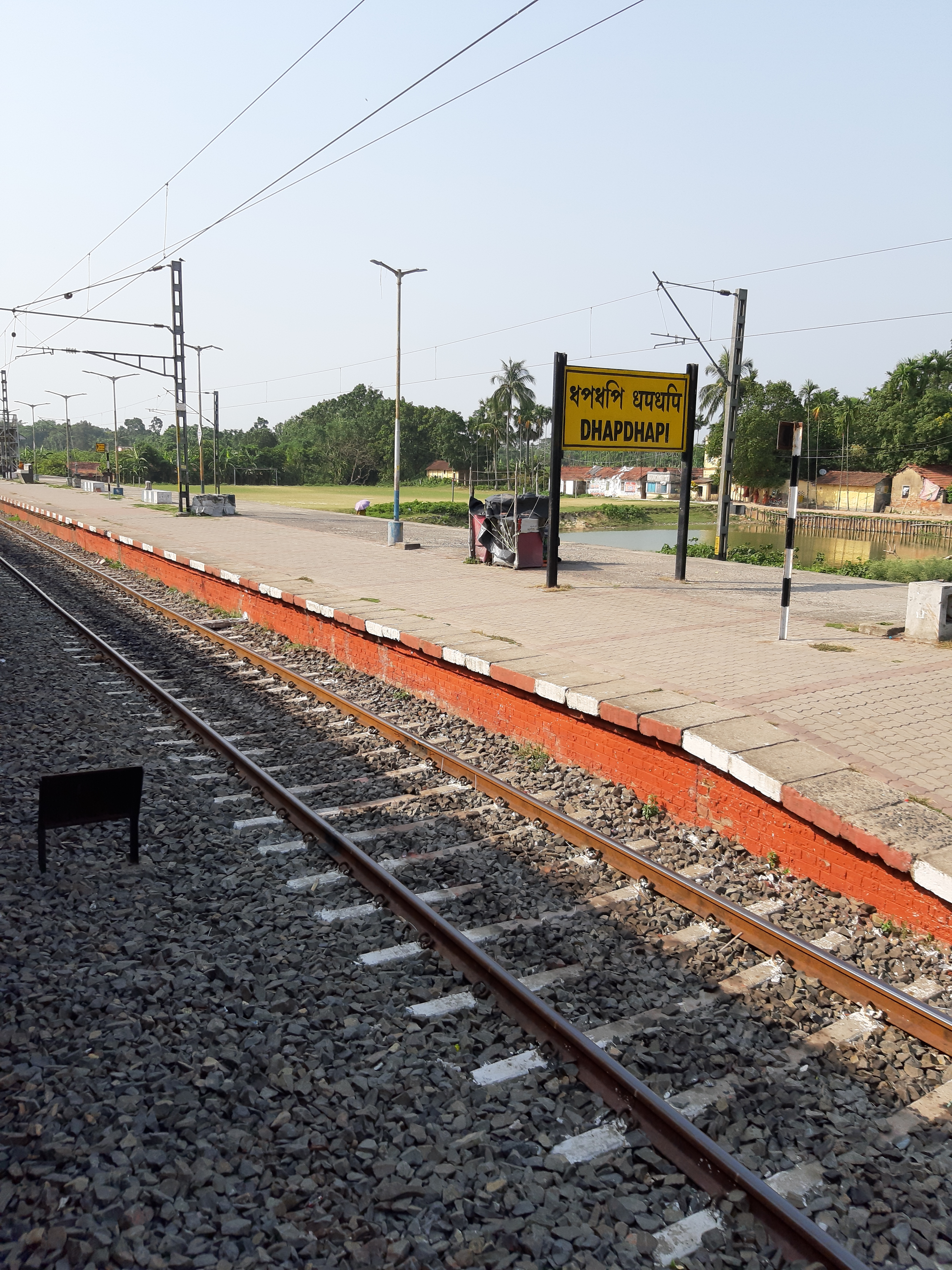 Baruipur Namkhana route railway stations in south 24 Parganas, West Bengal